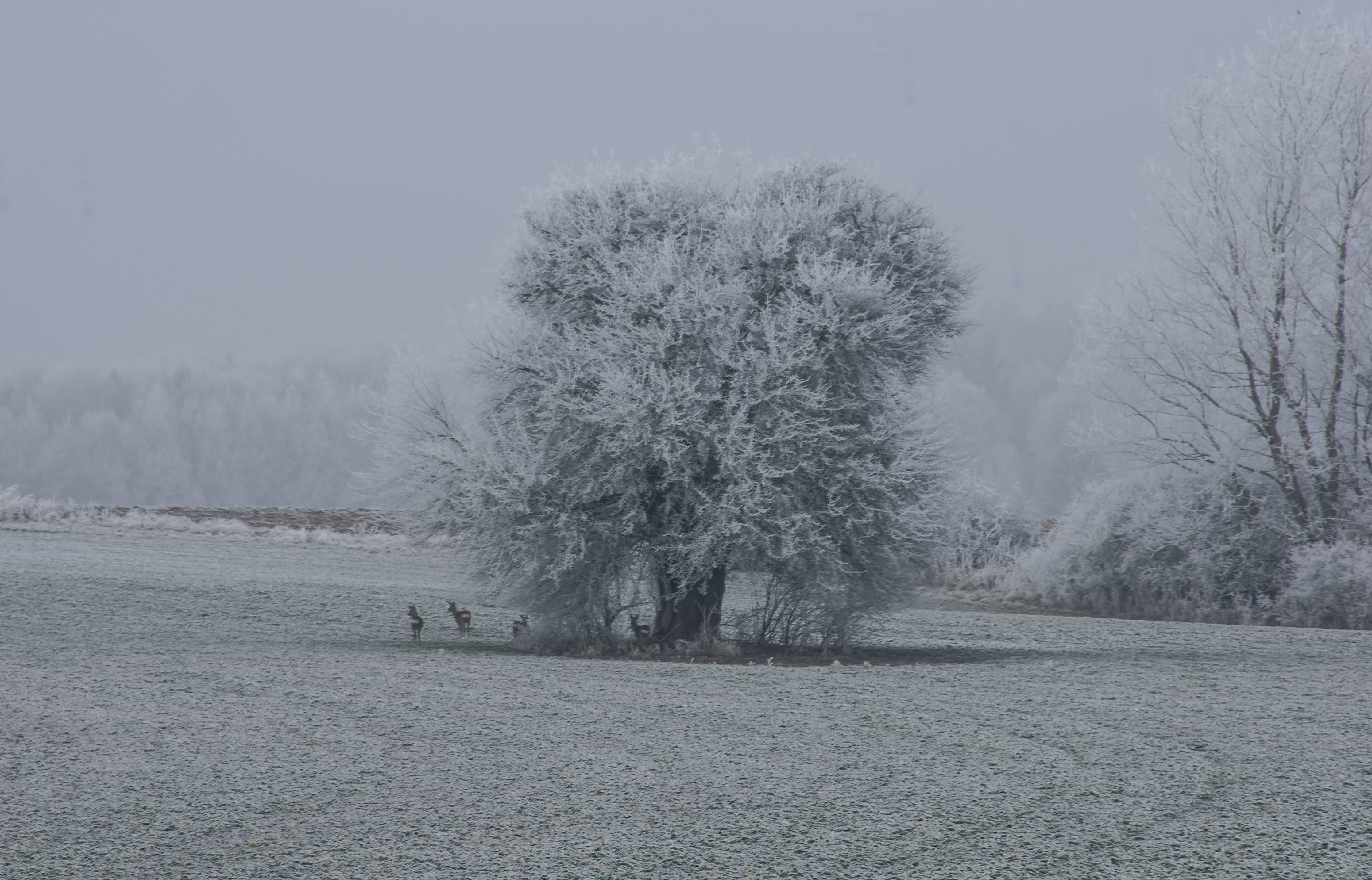 Nyklojc hruška v zimě